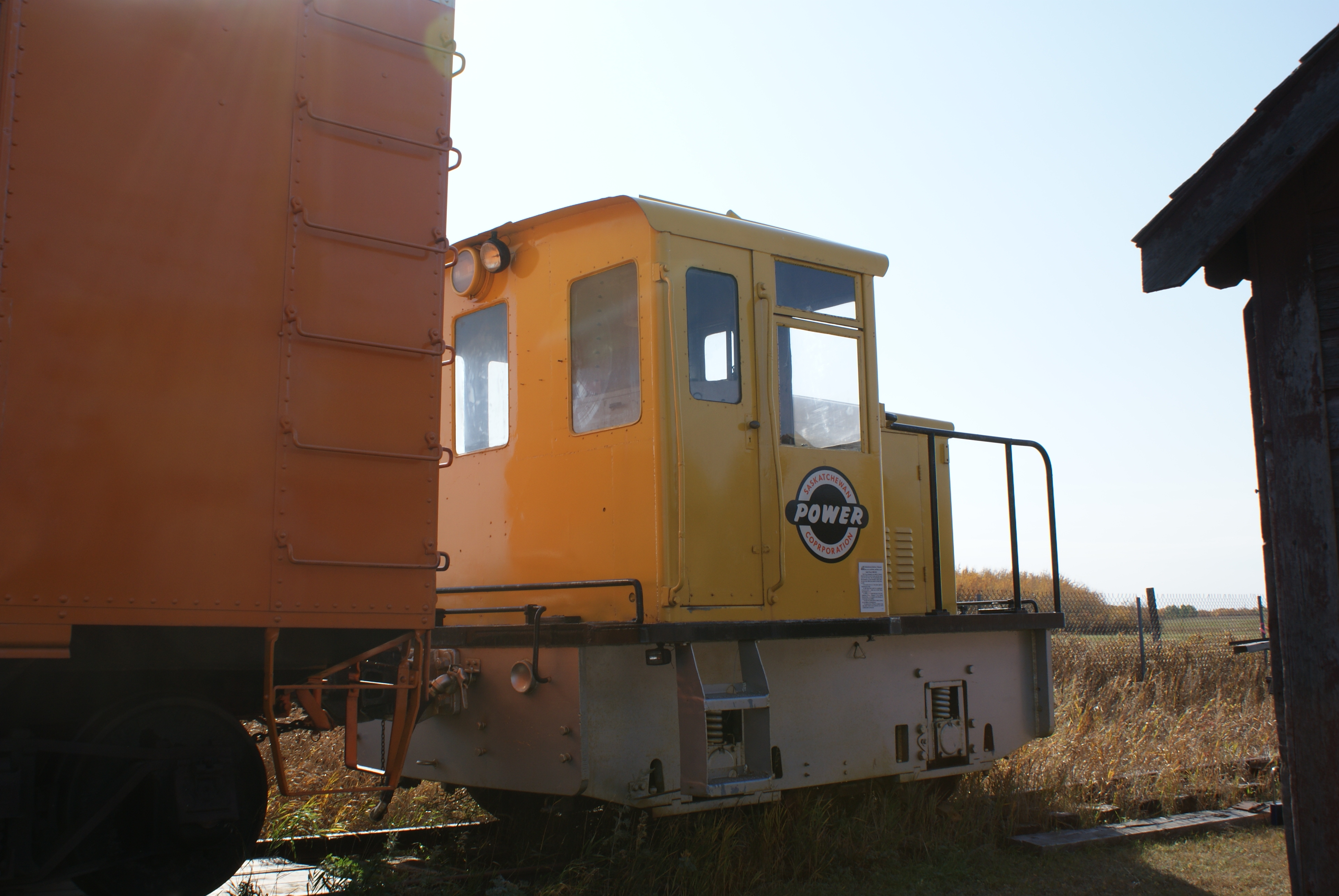 23 Ton General Electric ‘Yard Goat’ diesel electric SaskPower locomotive restored at the Saskatchewan Railway Museum 23 Ton GE SaskPower Locomotive; Saskatchewan Railway Museum